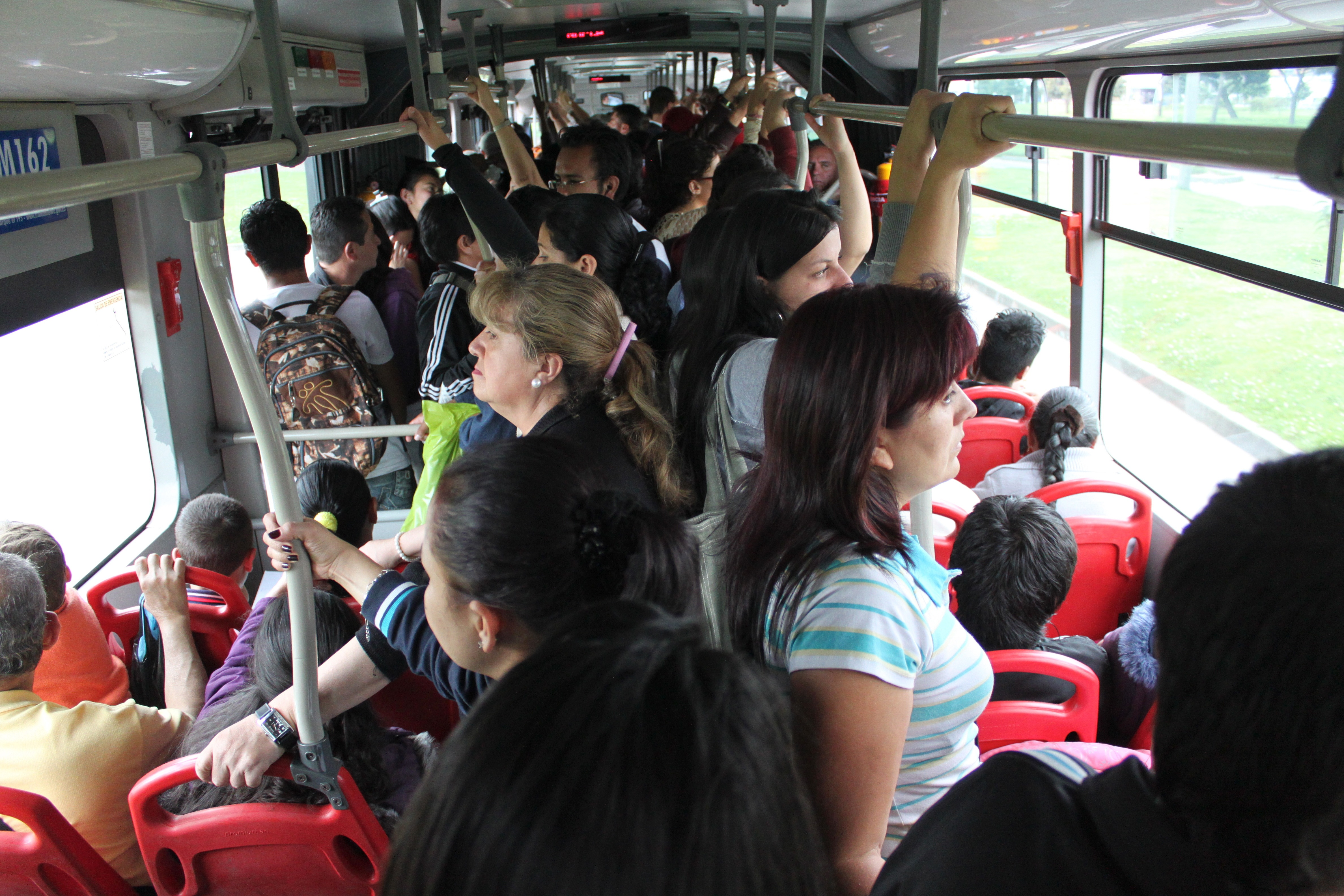 Showing the typical crowded interior of a TransMilenio bus.